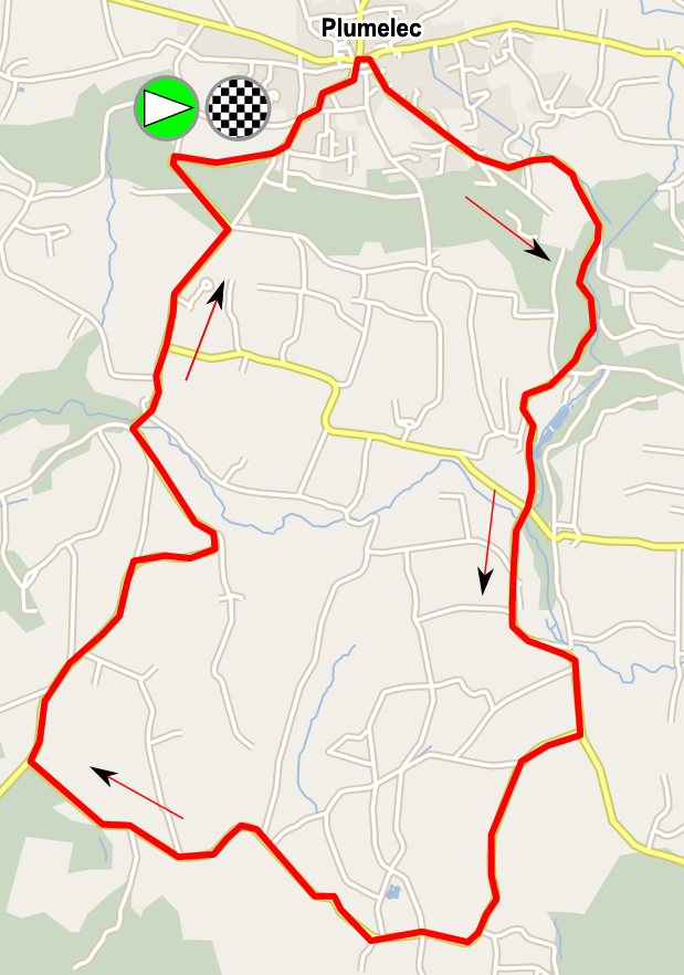 Map of the road race of the european championship 2016 women.